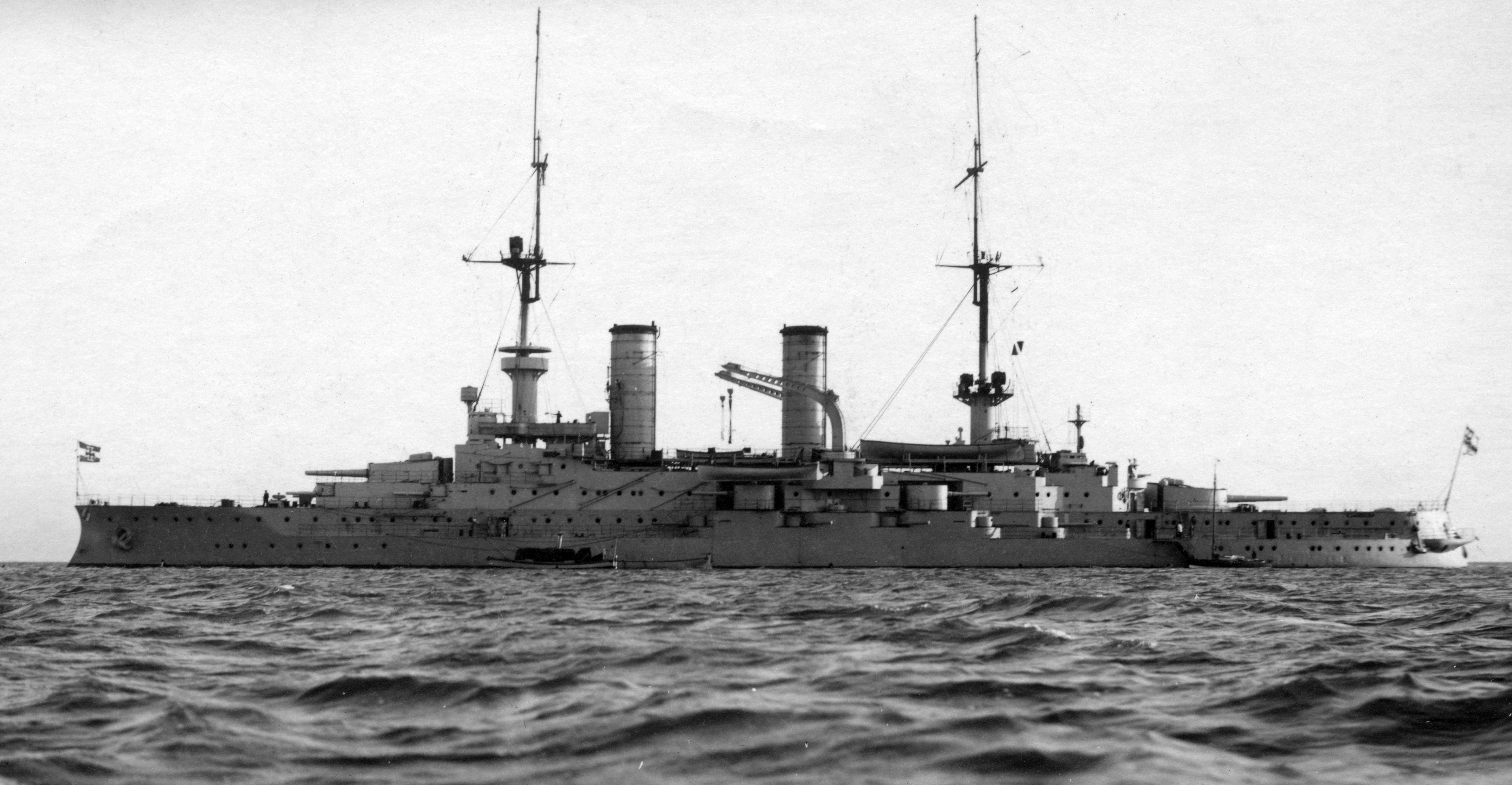 Battleship SMS Wittelsbach off Borkum sometime in the 1910s